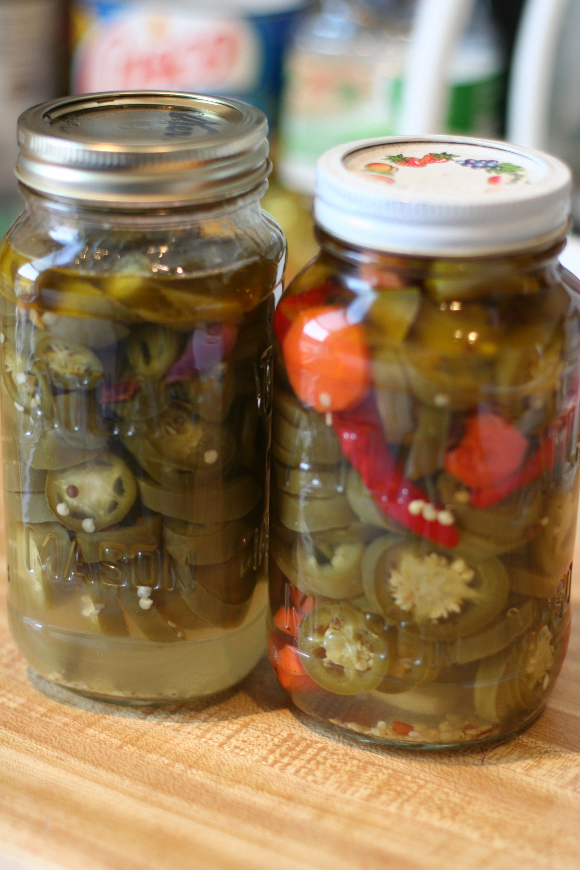 Delicious Pickled peppers, to accompany different meals.